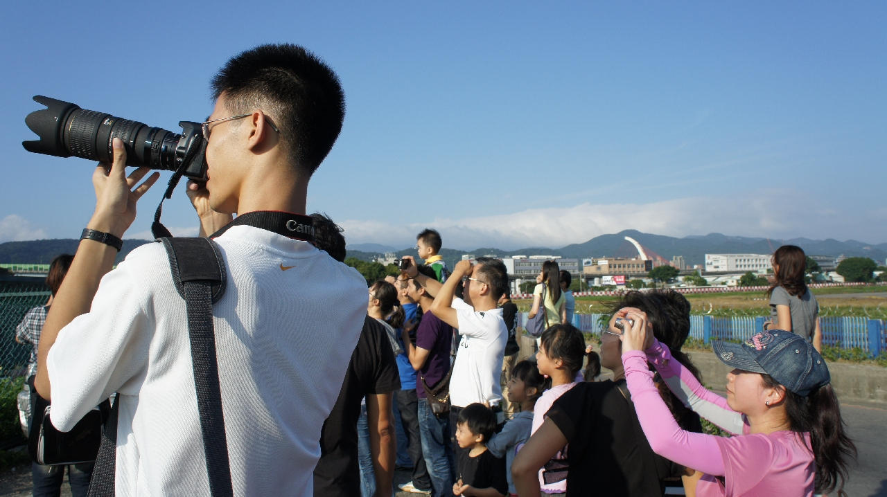 Airplane Is Coming To Landing In RCSS.